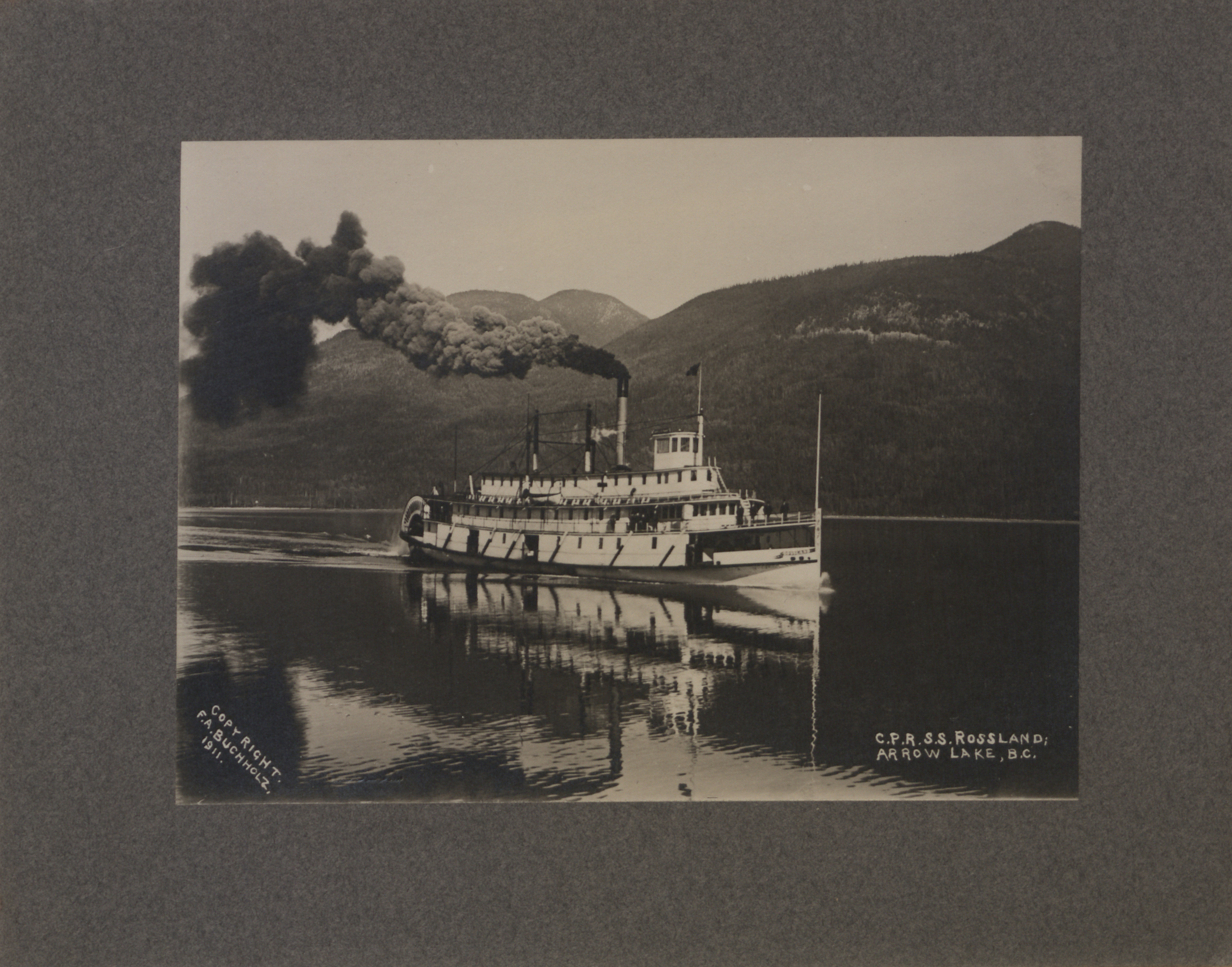 CPR SS "Rossland", Arrow Lake, British Columbia.